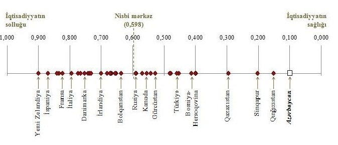 Leftnees Rightnees of Economies by social expenditures sub-index